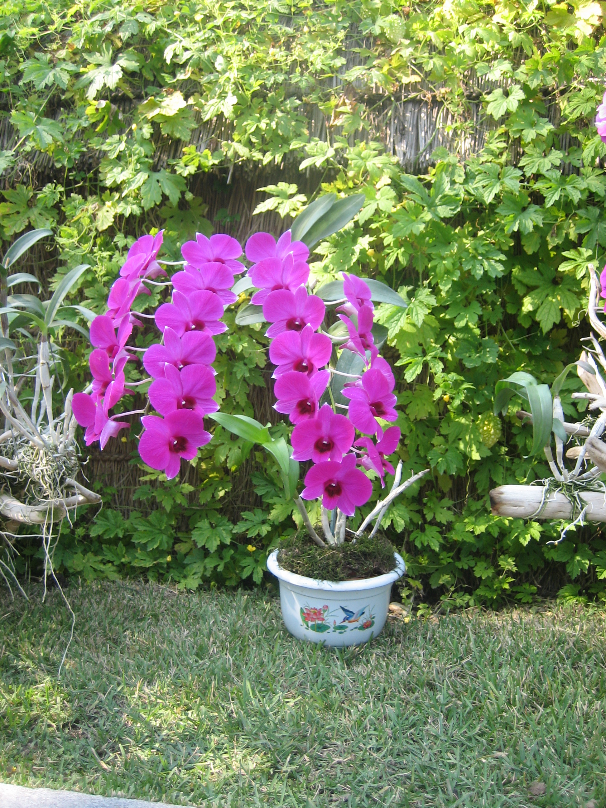 Kimilsungia